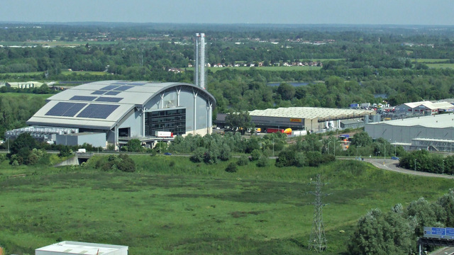 Colnbrook incinerator from the air